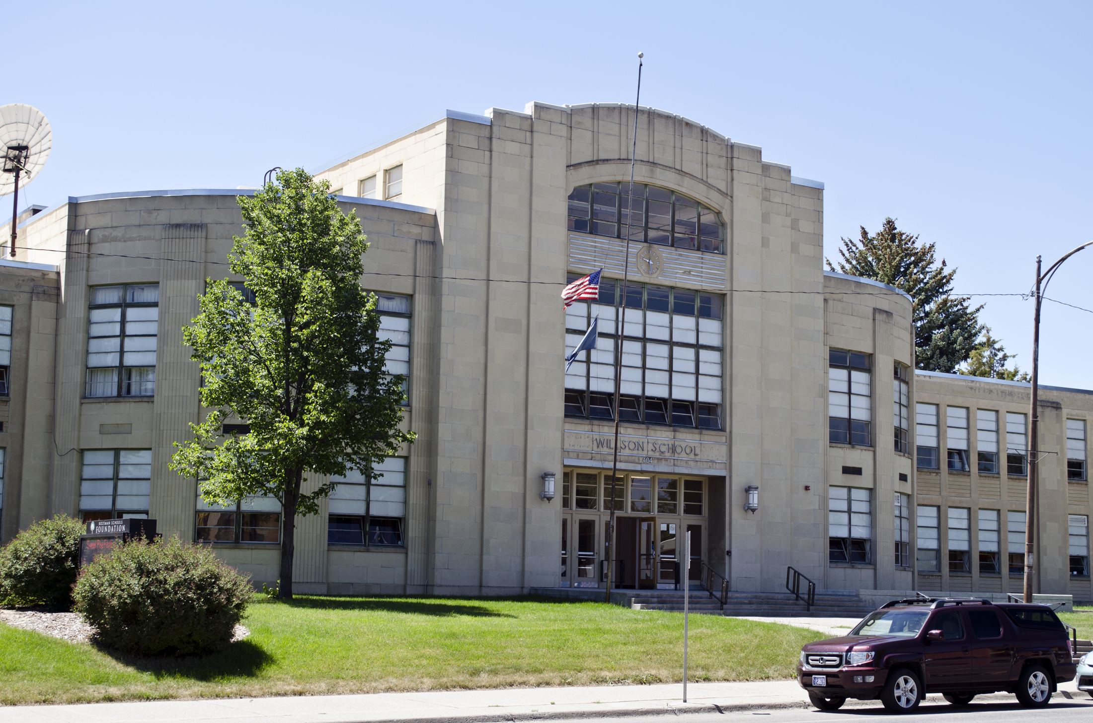 Looking southwest at the entrance of the old Gallatin County High School, 404 W. Main Street, Bozeman, Montana. Designed by local architect Fred Willson (who built much of downtown Bozeman), the small eastern brick structure was was constructed in 1902. The brick structure was extended in 1907. In 1937, the high school was vastly expanded with an Art Deco building, which became the main school building. Both extensions were designed by Willson. In 1956, Gallatin County High School became the Willson Junior High School when the city constructed Bozeman Senior High School on West Main (which still houses the school). After the then-new junior high, built on Eleventh Avenue north of the high school, was opened in the fall of 1966, the structure became Willson Middle School. The middle school closed in 1991, and the building was occupied by Bridger Alternative High School. In 2009, Bridger Alternative moved to a different building, and the Willson School (as the Art Deco structure is known) now houses administrative offices for the Bozeman Public Schools. The East School (as the original brick building is known) is no longer considered safe due to a lack of fire sprinklers and it does not meed modern earthquake codes; it has been used for storage since 2010. The entire structure was listed on the National Register of Historic Places on January 22, 1988.